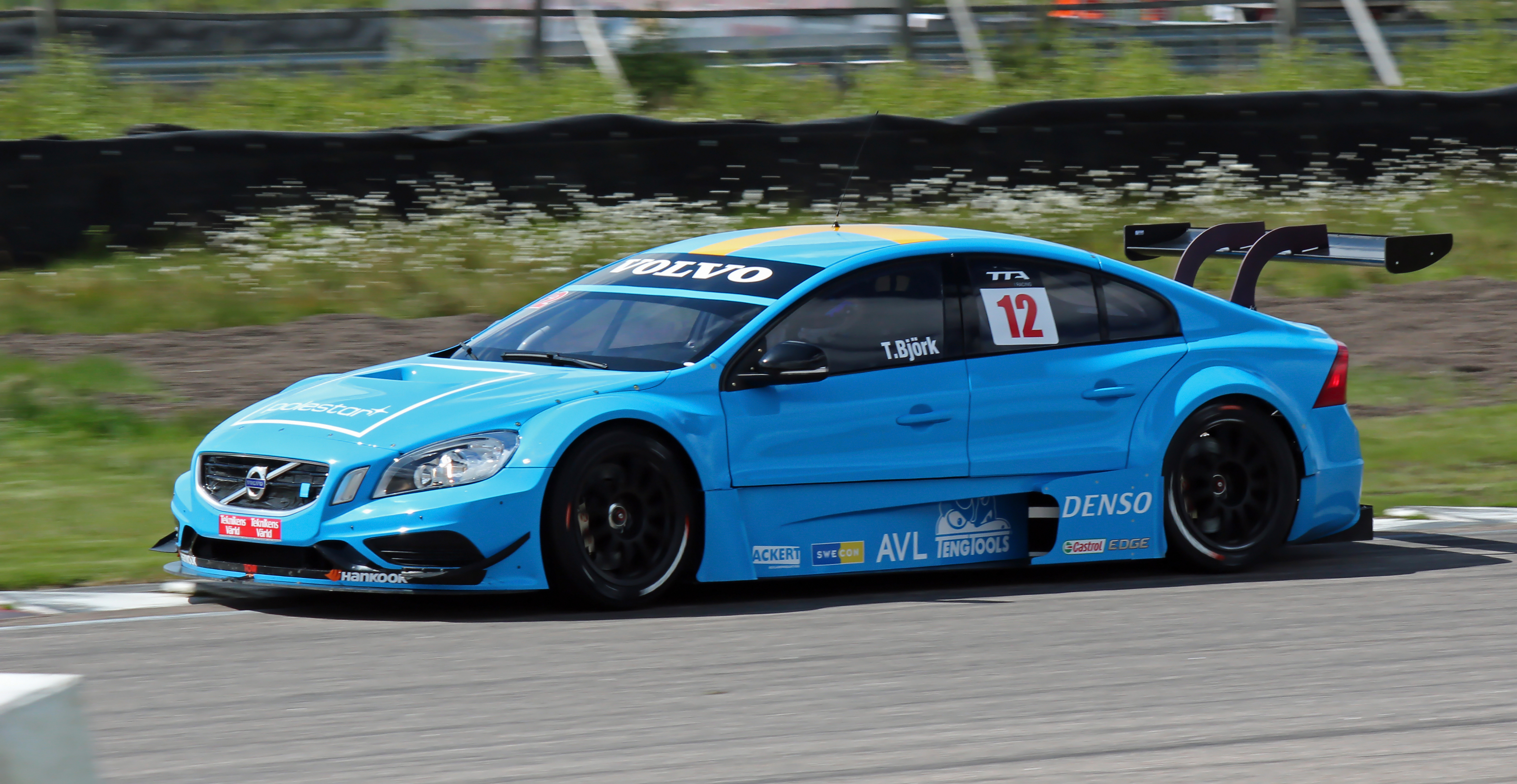 Thed Björk in his Volvo S60 Solution-F for Volvo Polestar Racing in TTA – Racing Elite League at Anderstorp Raceway in 2012.